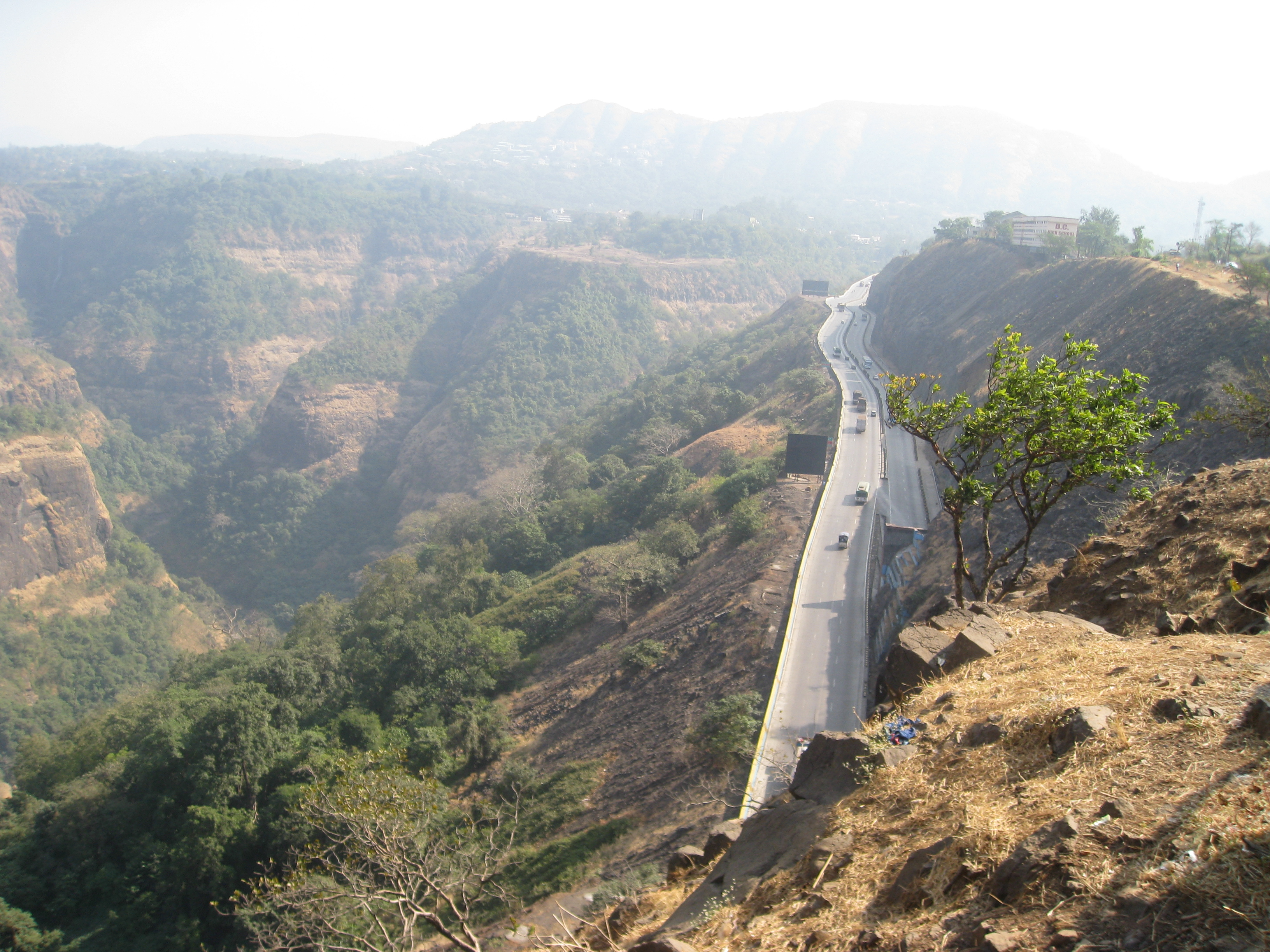 Mumbai-Pune Expressway from Rajmachi Garden(Khandala)